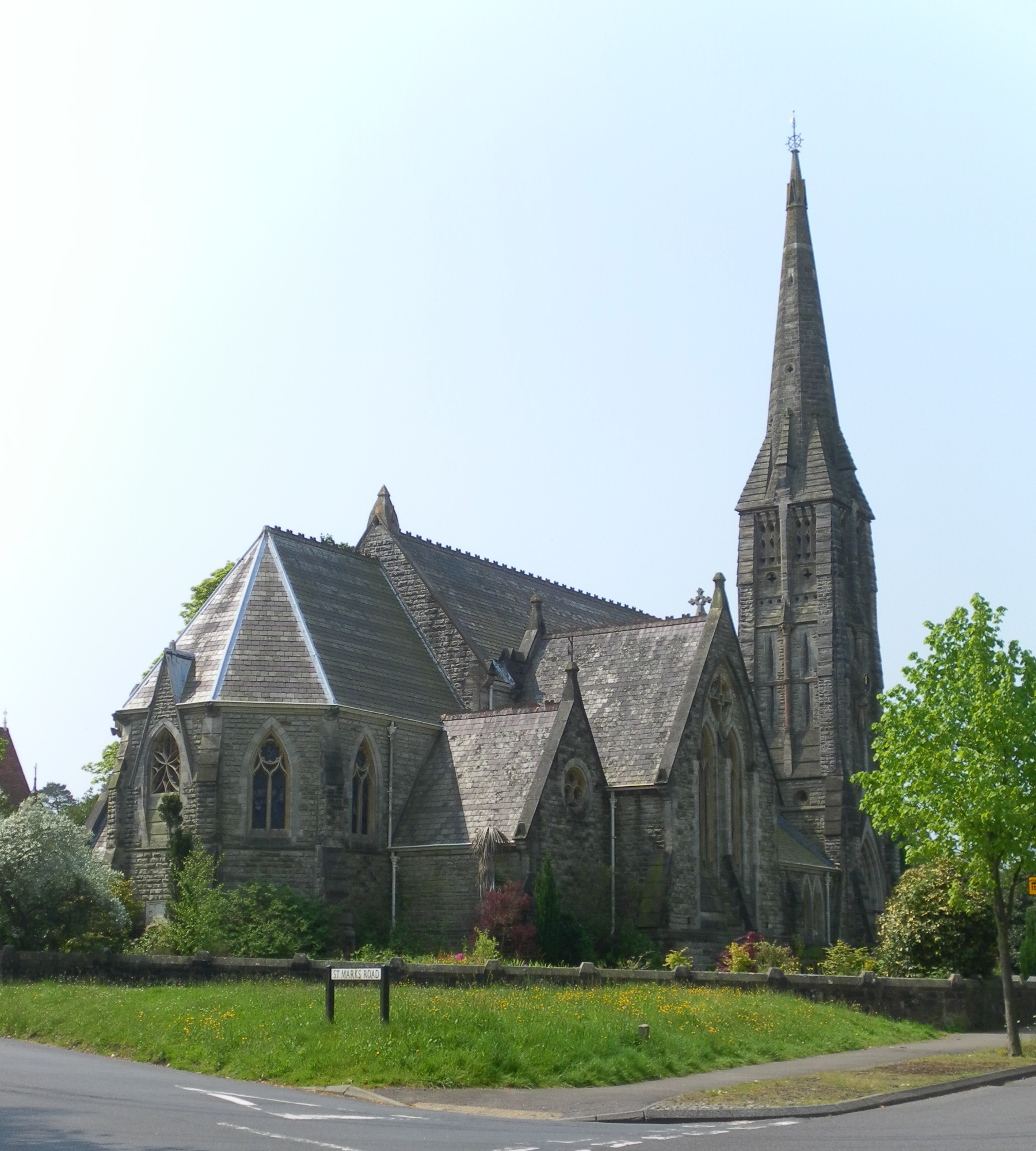 St Mark's Church, Broadwater Down, Royal Tunbridge Wells, Borough of Tunbridge Wells, Kent, England. The Anglican parish church of the Broadwater Down area of Royal Tunbridge Wells.